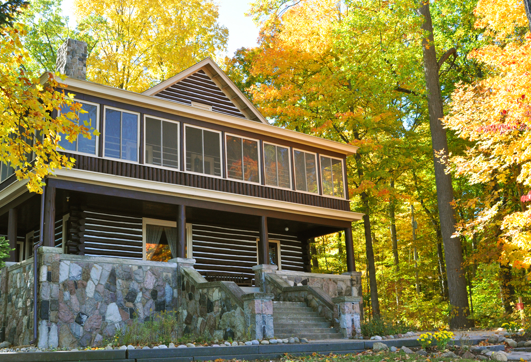 Gene's Cabin at Wildflower Woods, sometimes called Limberlost North, is now the Gene Stratton-Porter State Historic Site. Located on Sylvan Lake in Rome City, Noble County, Indiana.